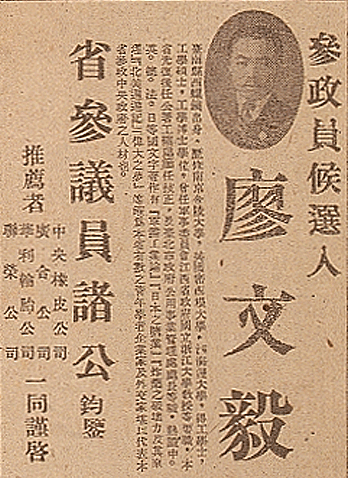 高雄市立歷史博物館